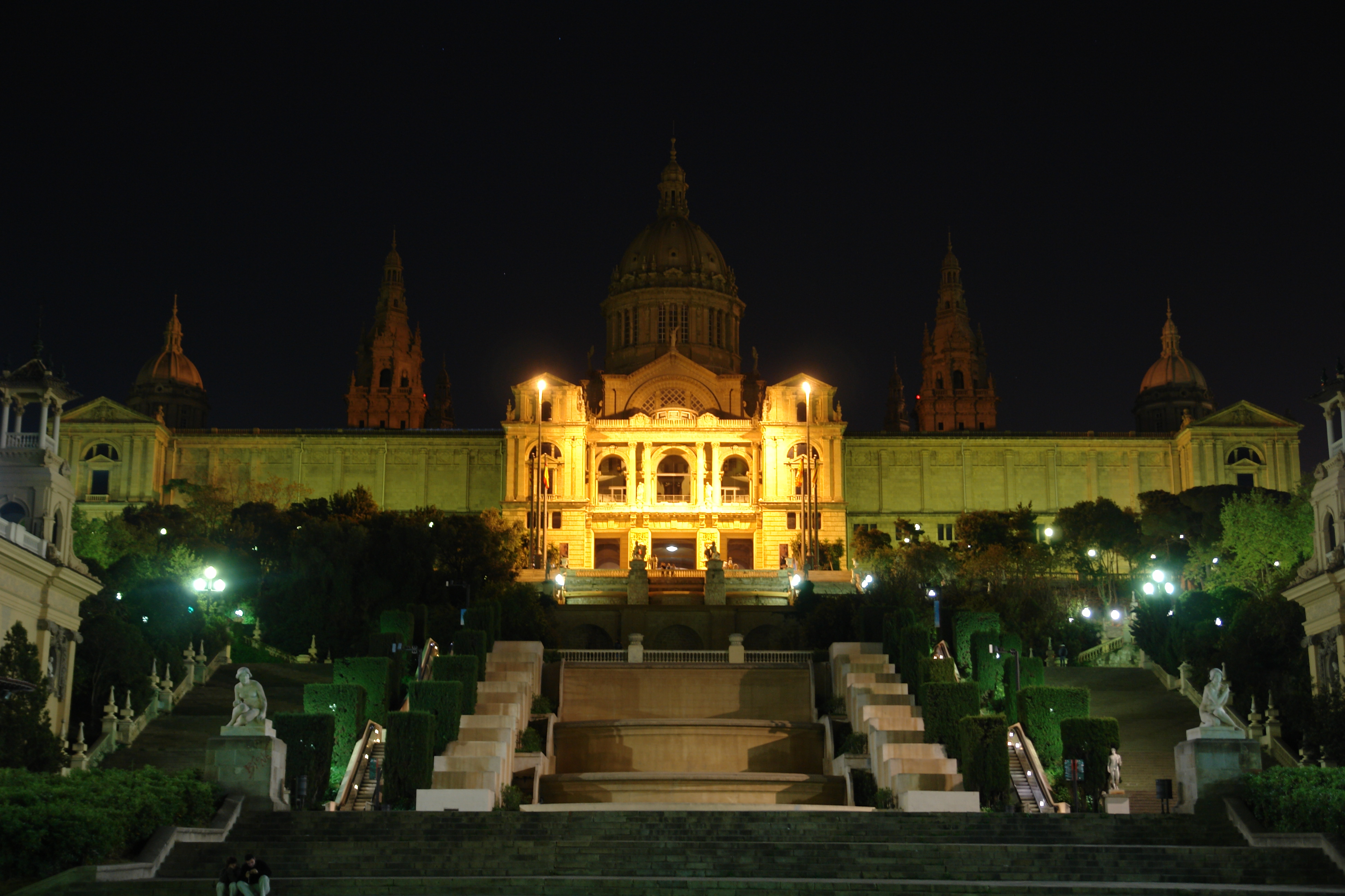 National_Art_Museum_of_Catalonia_Night_vue-_Spain